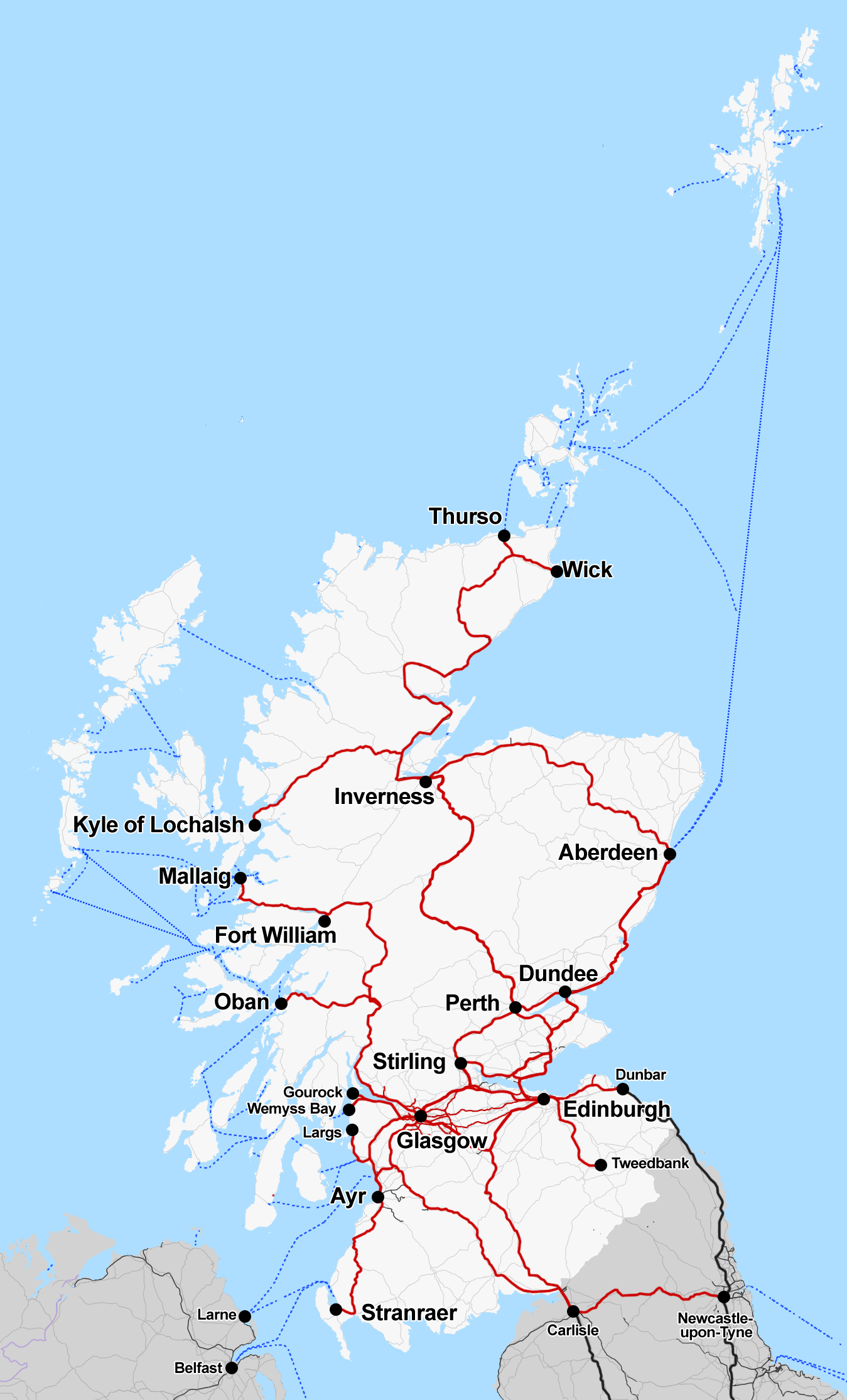 Railway map of Scotland This map may be incomplete, and may contain errors. Don't rely solely on it for navigation.